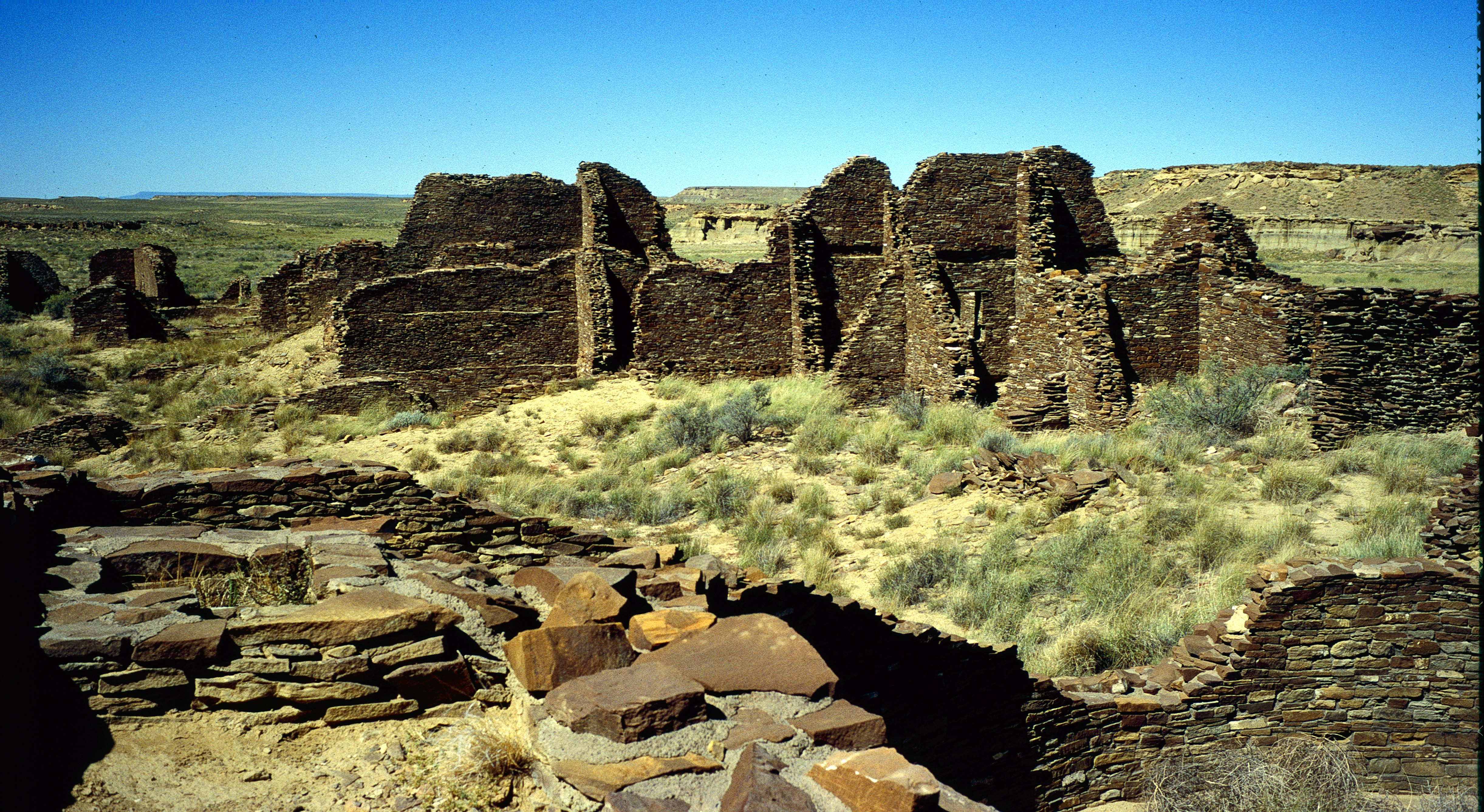 Kin Bineola, Chaco Canyon, New Mexico, U. S. A.